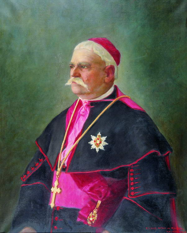 The bishop Paškal Buconjić (1834-1910)